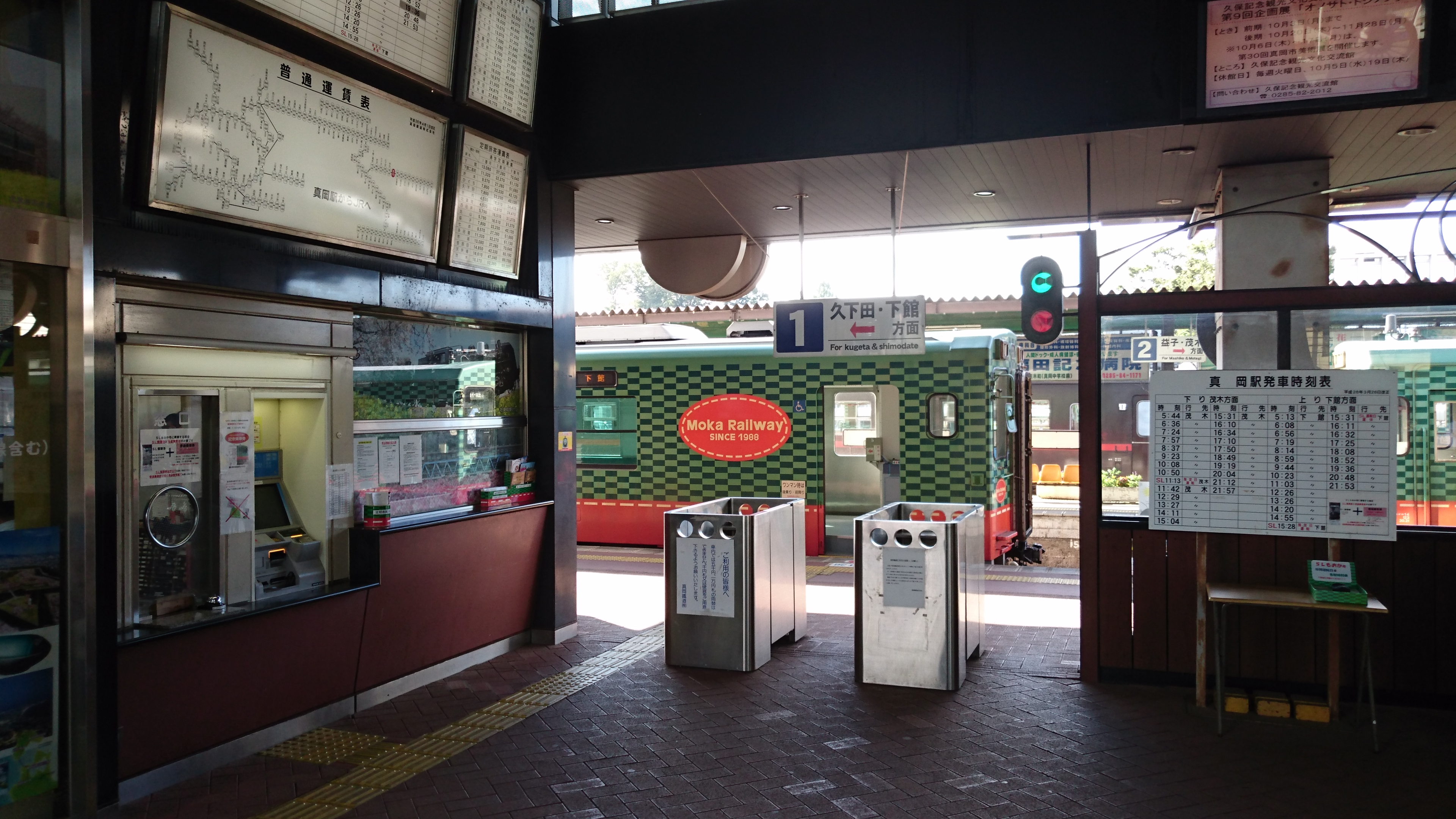 Ticket barriers of Mōka Station